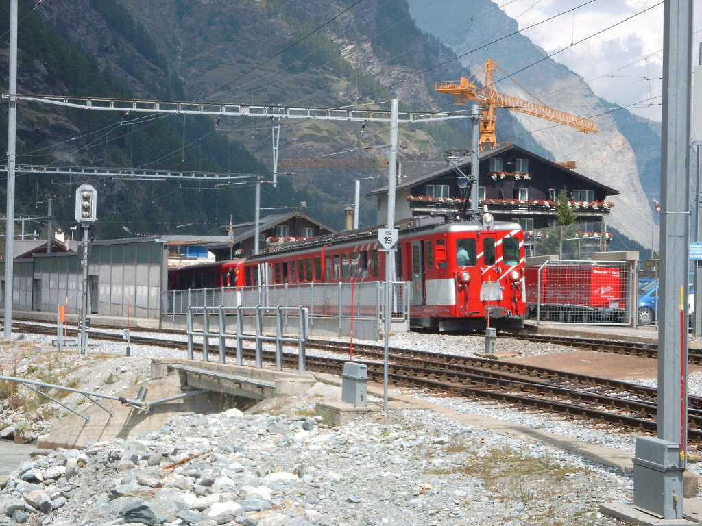 Push-pull train to Zermatt in Täsch, Summer 2005. Created and uploaded by Philipp Groß.